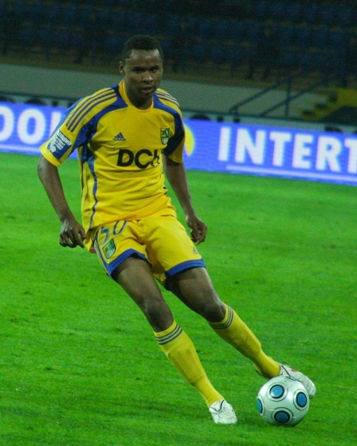 Jackson Avelino Coelho, midfielder of Metalist Kharkiv